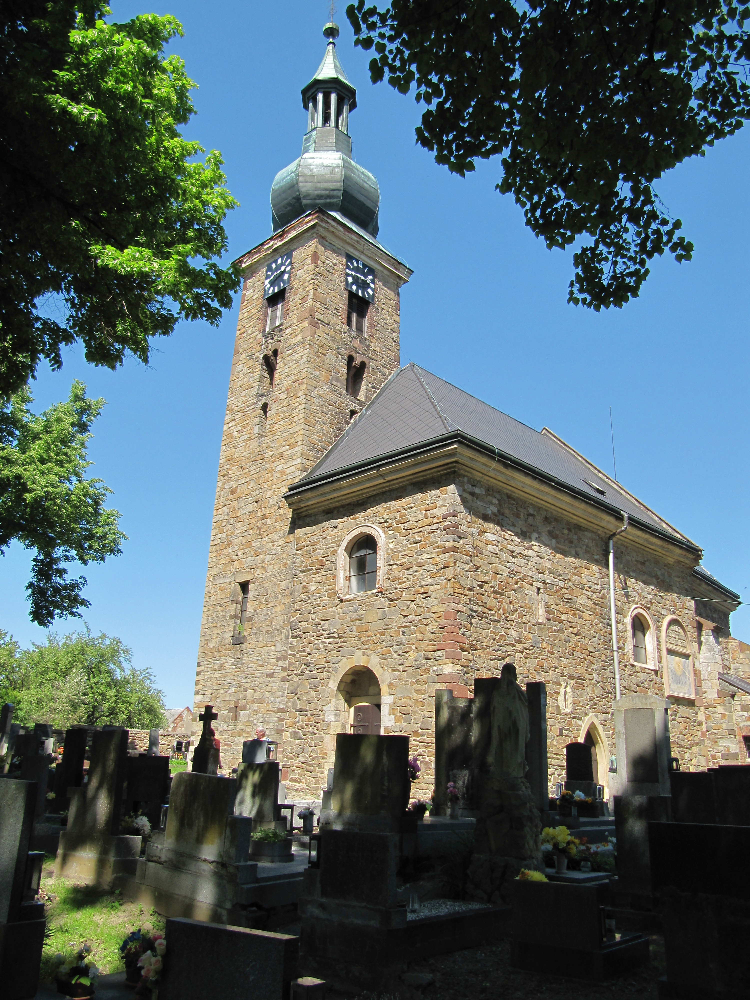 Úžice in Kutná Hora District, Czech Republic. Originally Romanesque church of the Assumption from the 12th century.